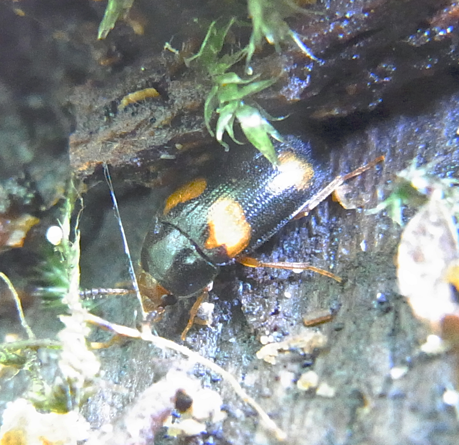 Mycetophagus quadripustulatus from Southern France near 64404 Oloron-Sainte-Marie at 2011-05-30 near